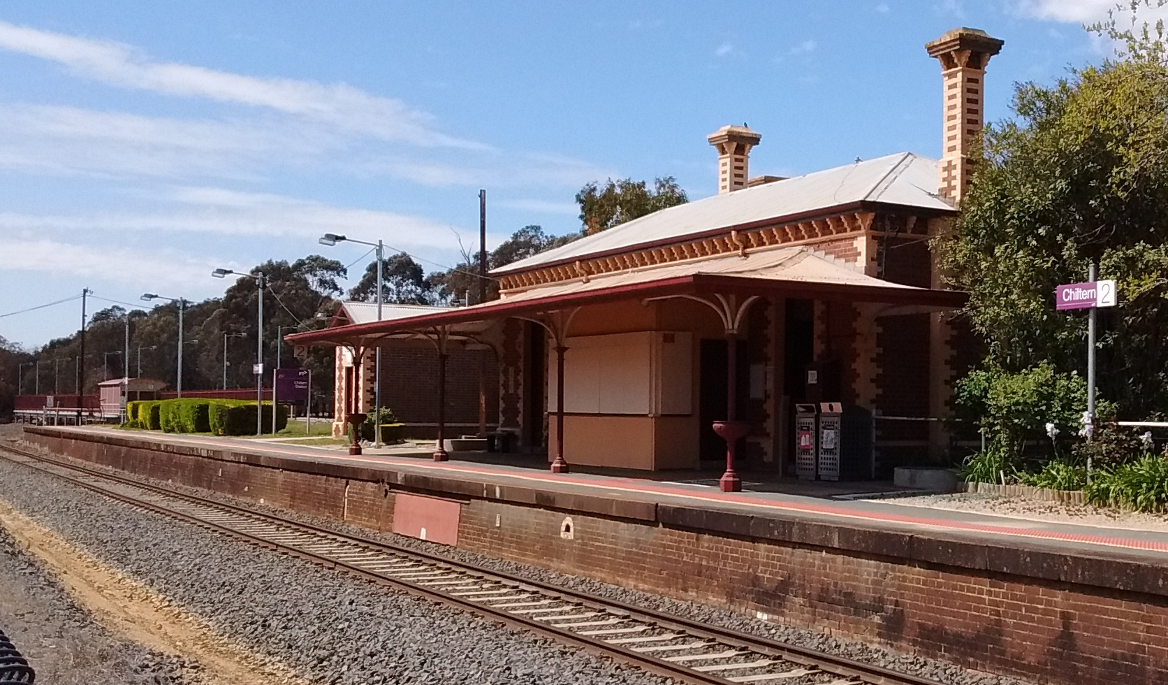 Chiltern railway station.